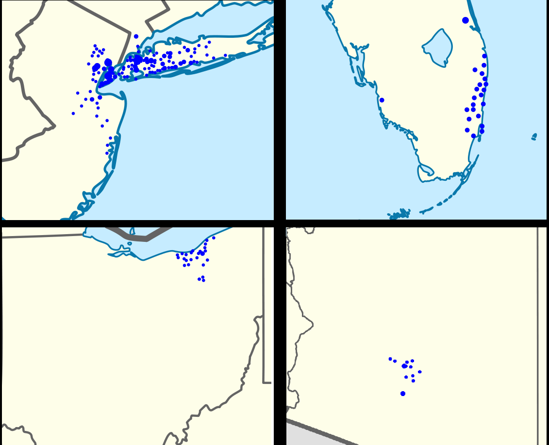 Footprint of traditional New York Community Bank.